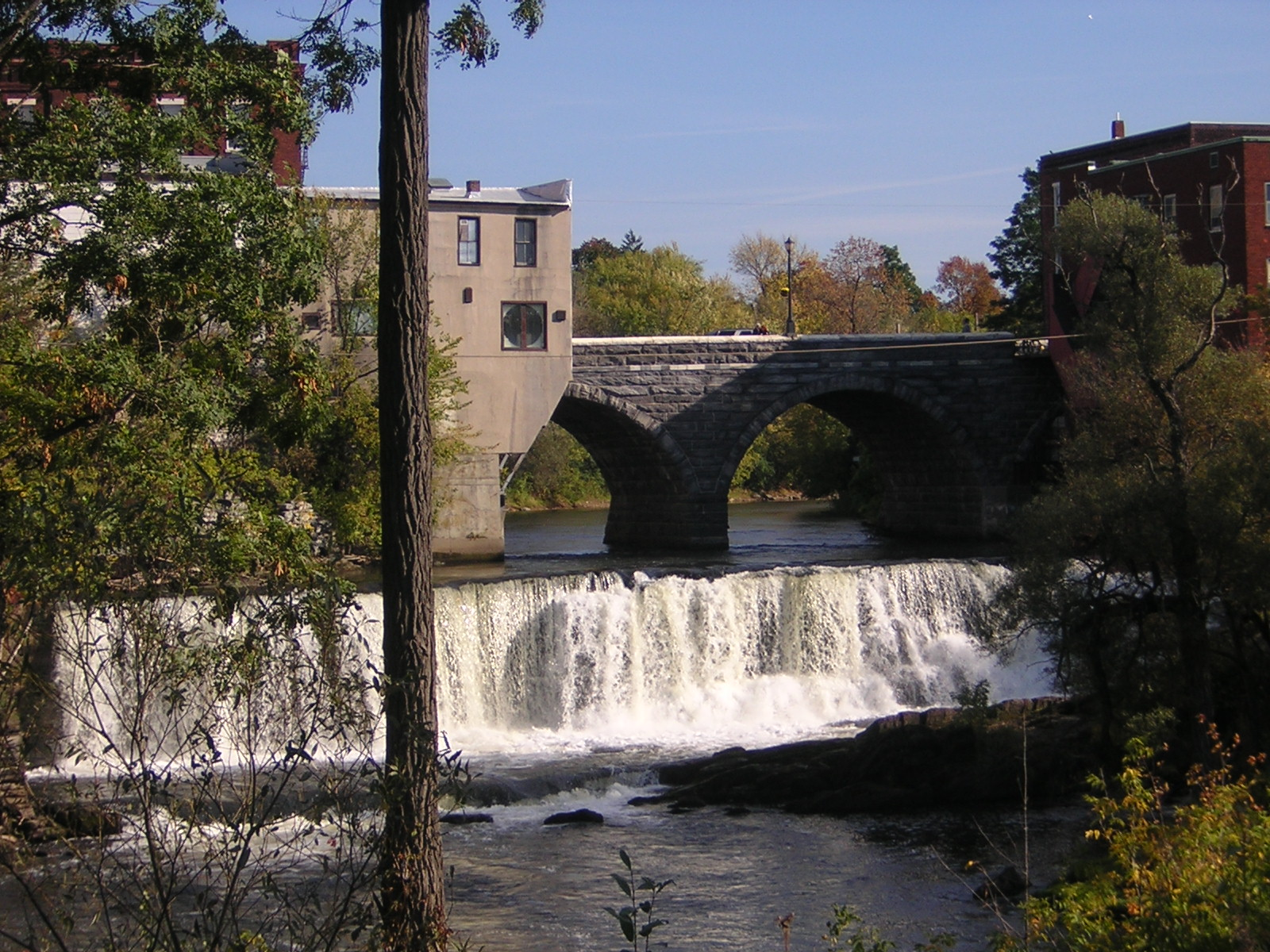 Otter Creek Falls beneath Main Street in Middlebury, VT taken by jd4508.